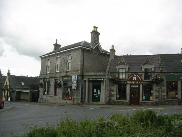 Centre of Oldmeldrum, North east Scotland. Road junction by the town hall in Oldmeldrum